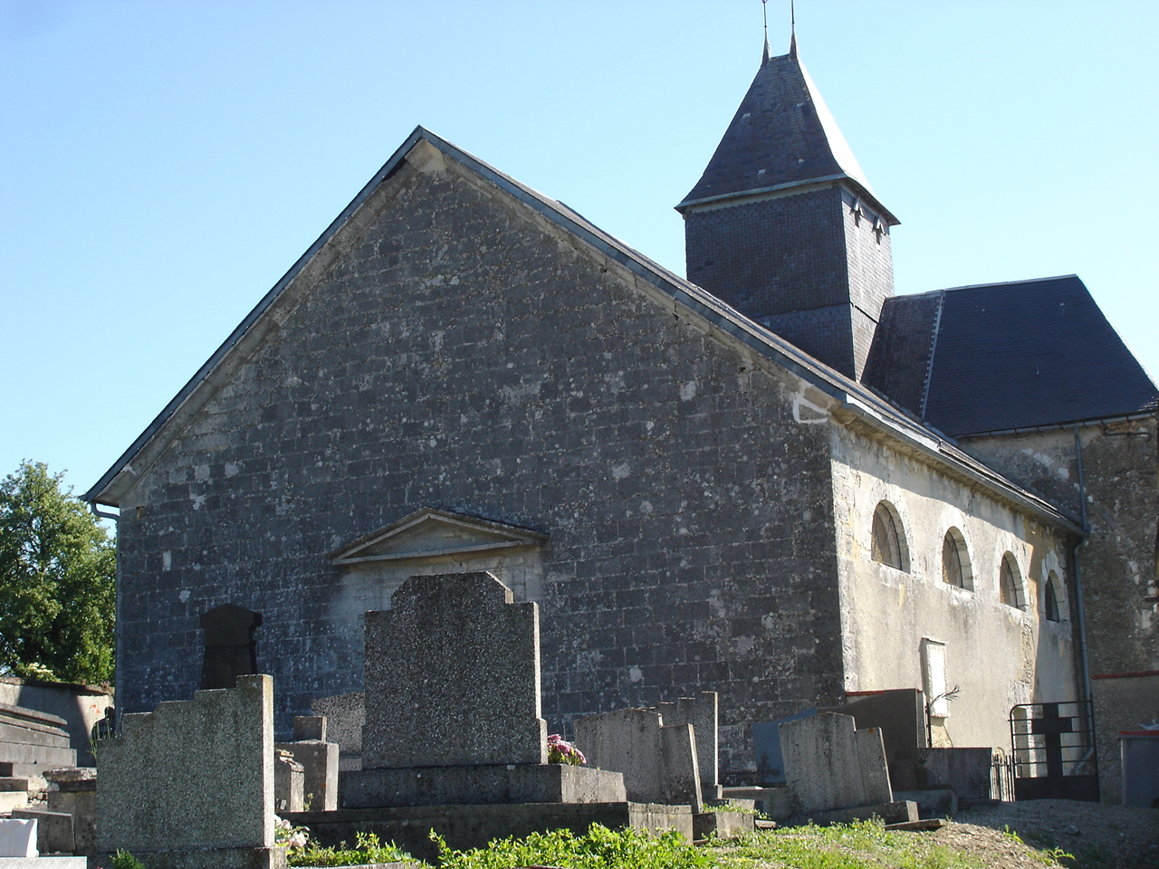 Saint Martin Church, Soulières, Marne, France